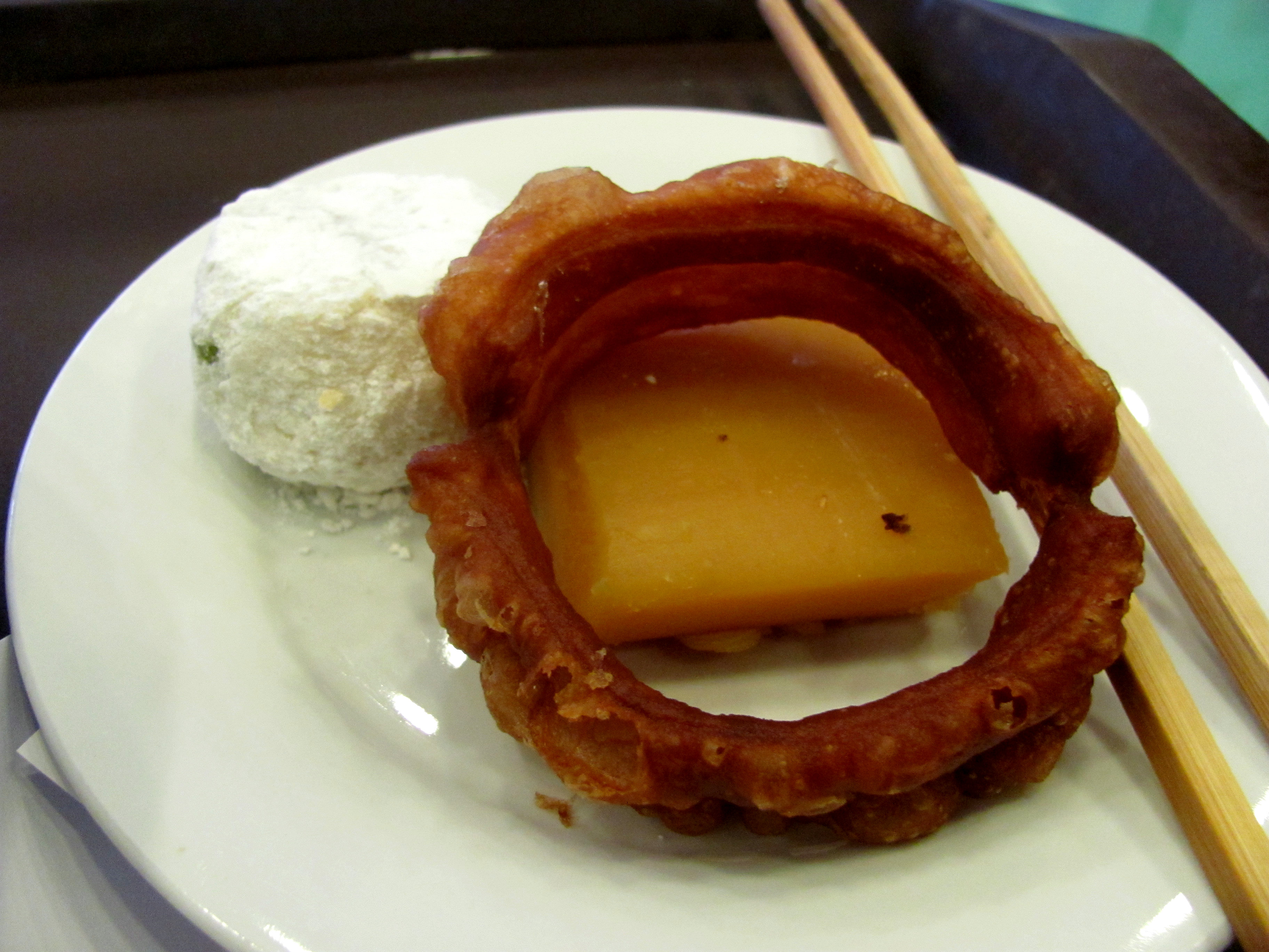 右上为艾窝窝，中间圈状物为焦圈，下方为豌豆黄